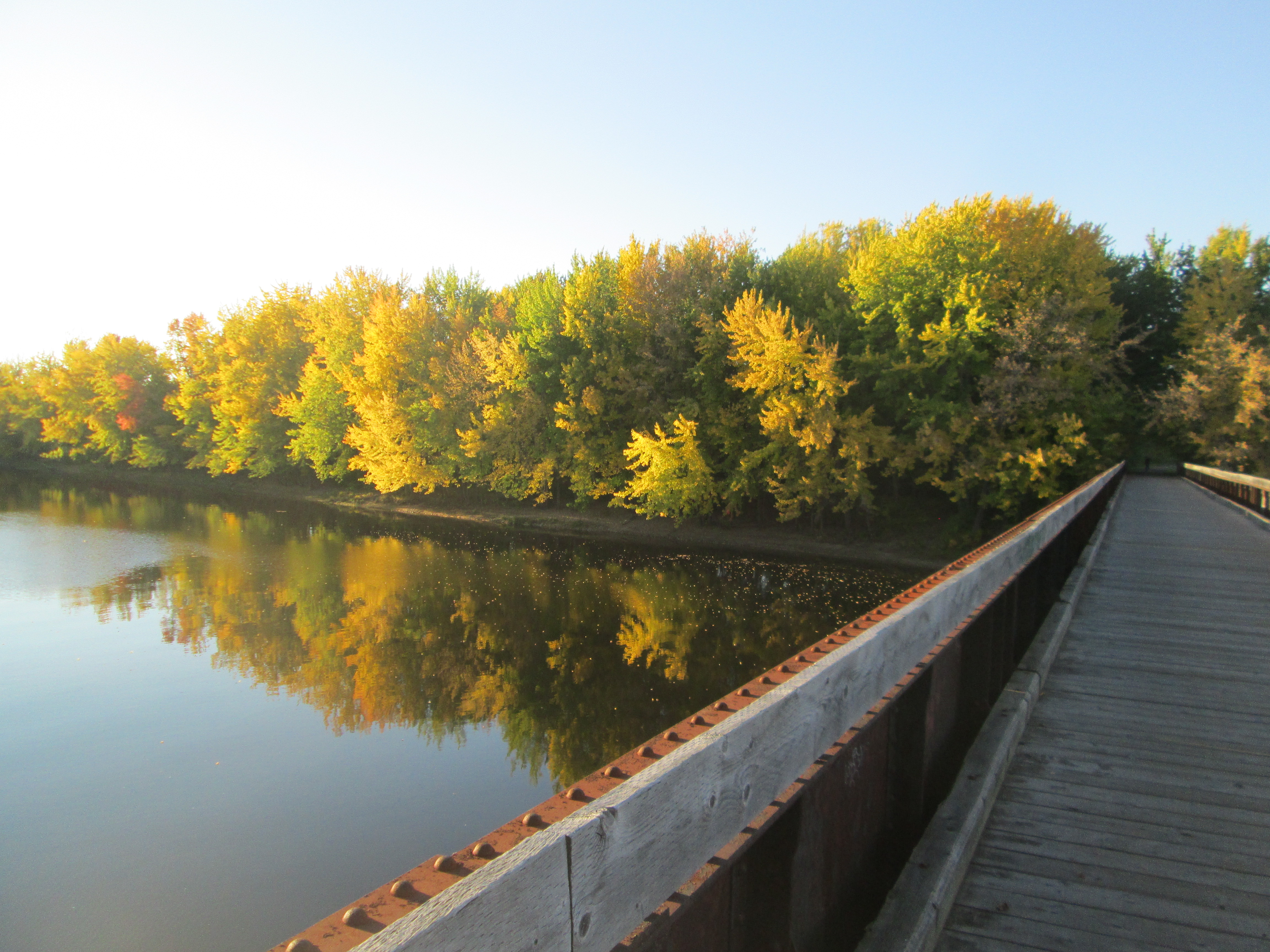 October 6, 2016